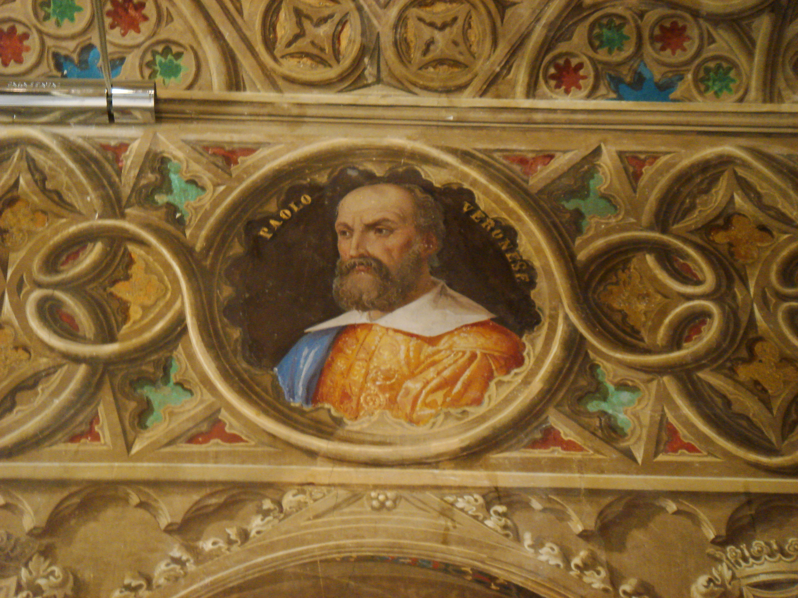 Rome, Italy. .